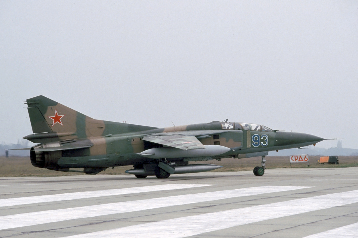 22 March 1993. MiG-23UB entering the runway of Finsterwalde, East Germany.